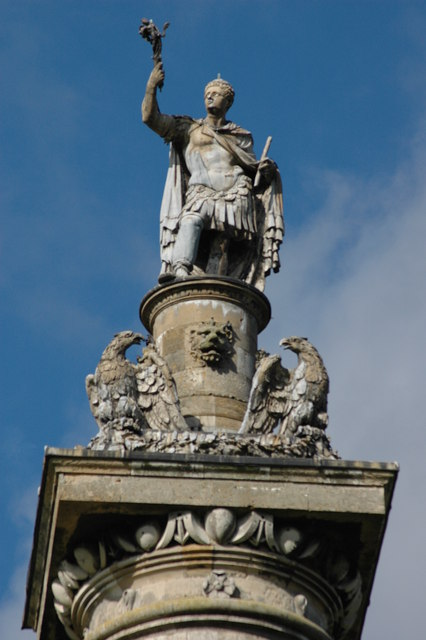 Column of Victory, Blenheim Park Statue on the top of the Column of Victory in Blenheim Park.